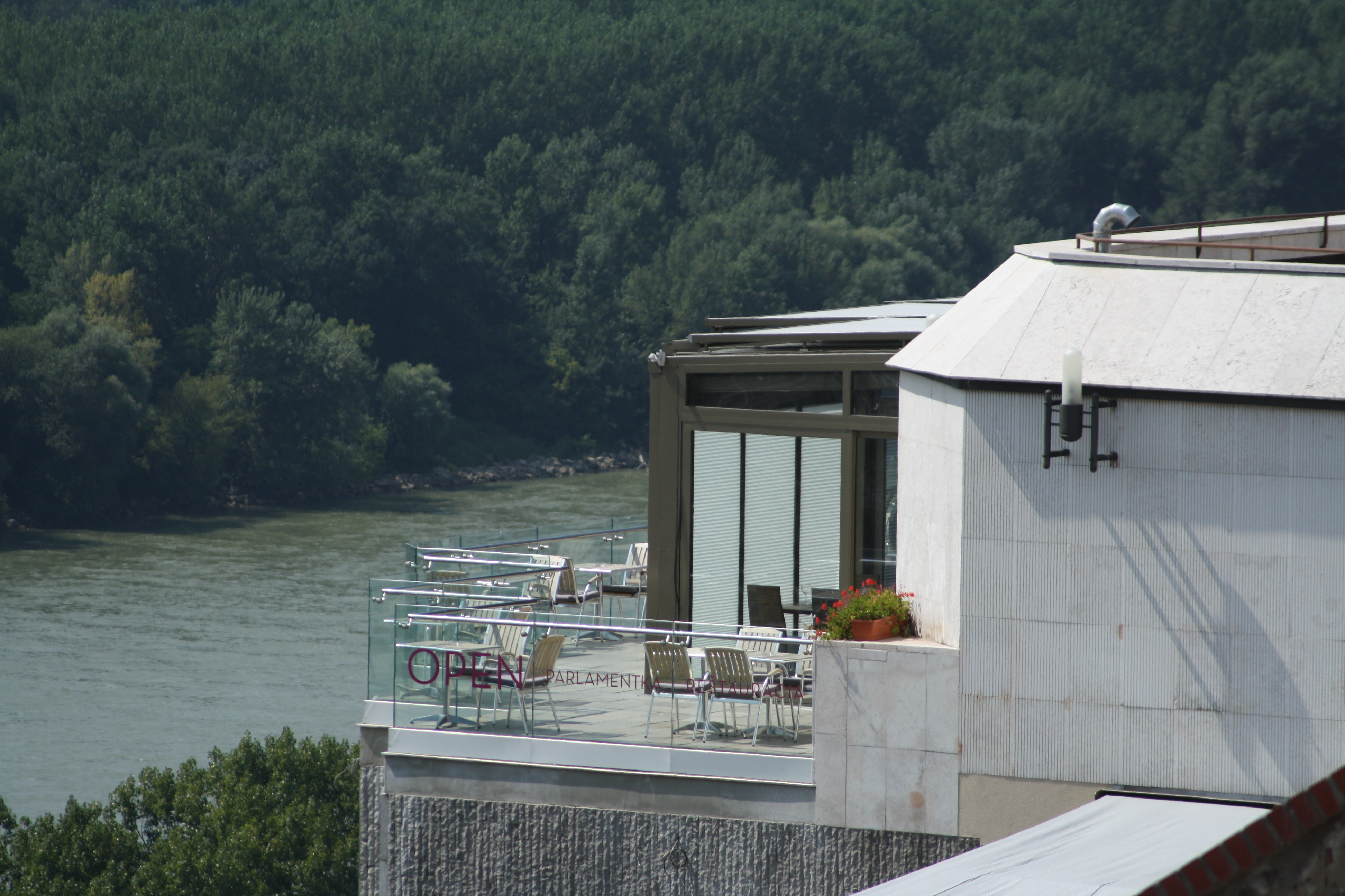 Parlamentka restaurant in Bratislava, Slovakia.